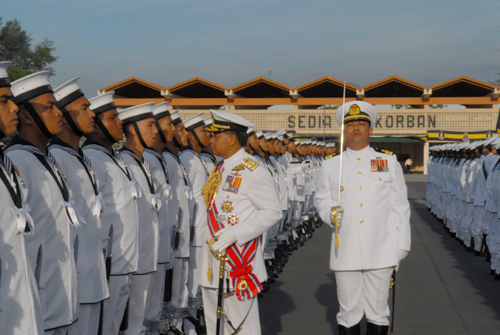 The Royal Malaysian Navy Commodore, Admiral Tan Sri Ramlan Mohd Ali inspecting the navy parade. (RELEASED)